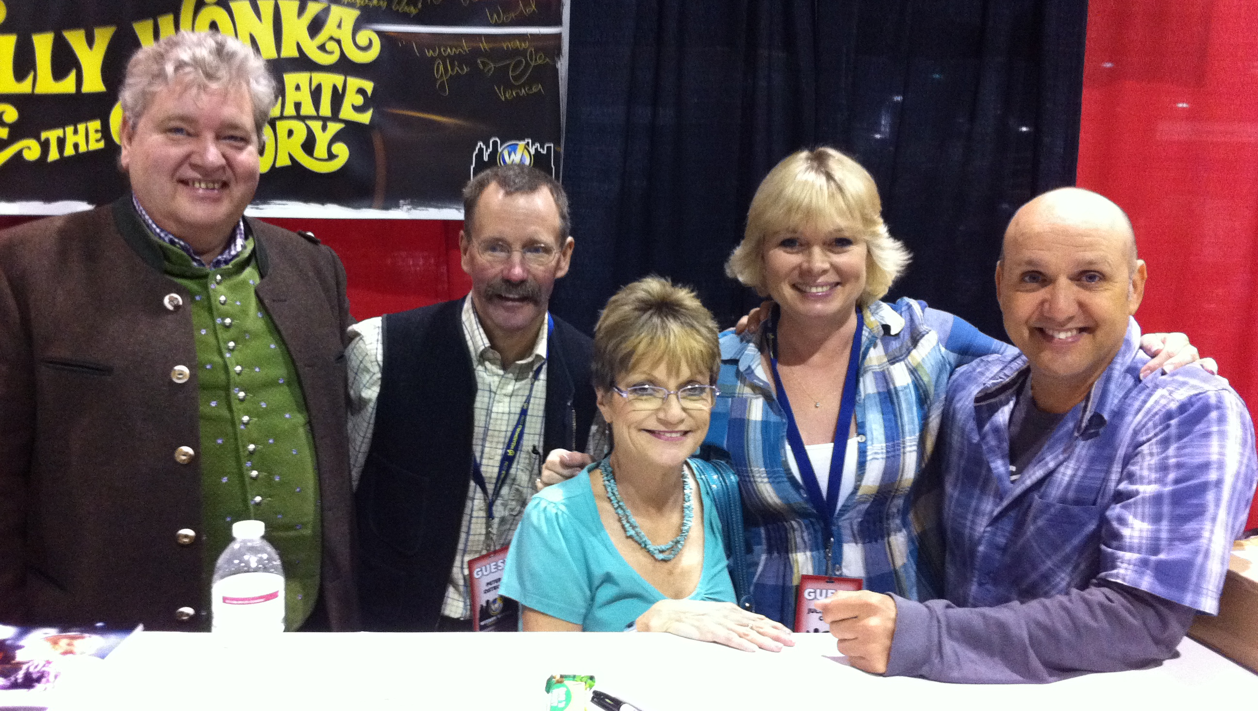 The original child cast of Willy Wonka & the Chocolate Factory were at the 2011 Wizard World Chicago event promoting that film's 40th anniversary.